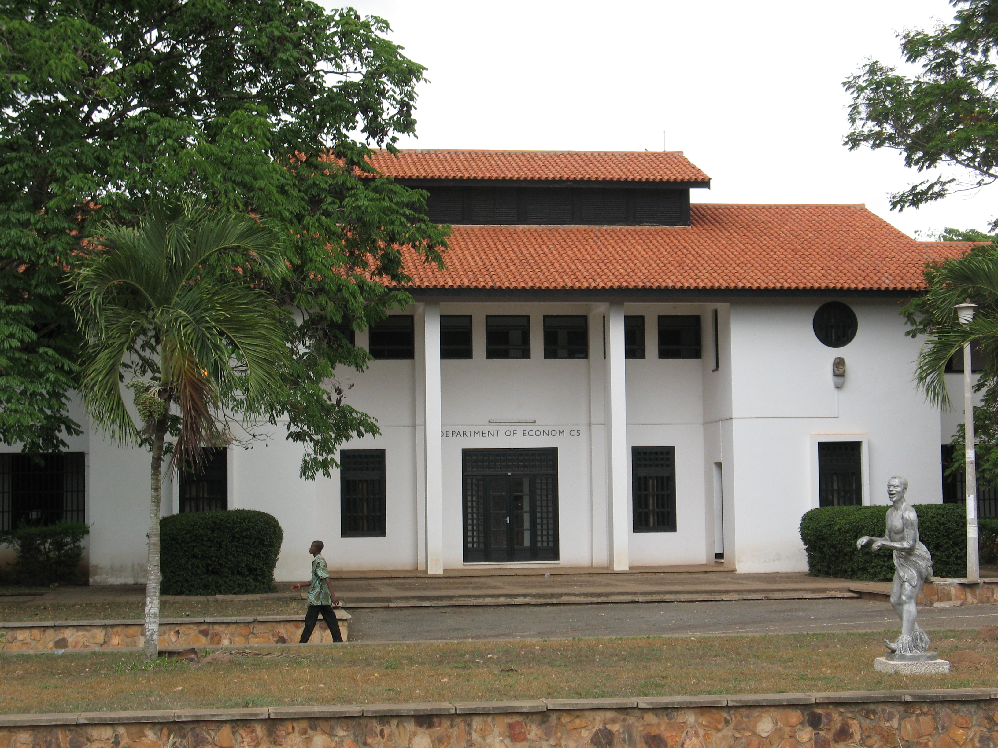 The Department of Economics building in Legon Campus, University of Ghana, Accra, Ghana.